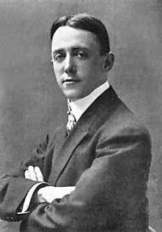 American composer George M. Cohan.